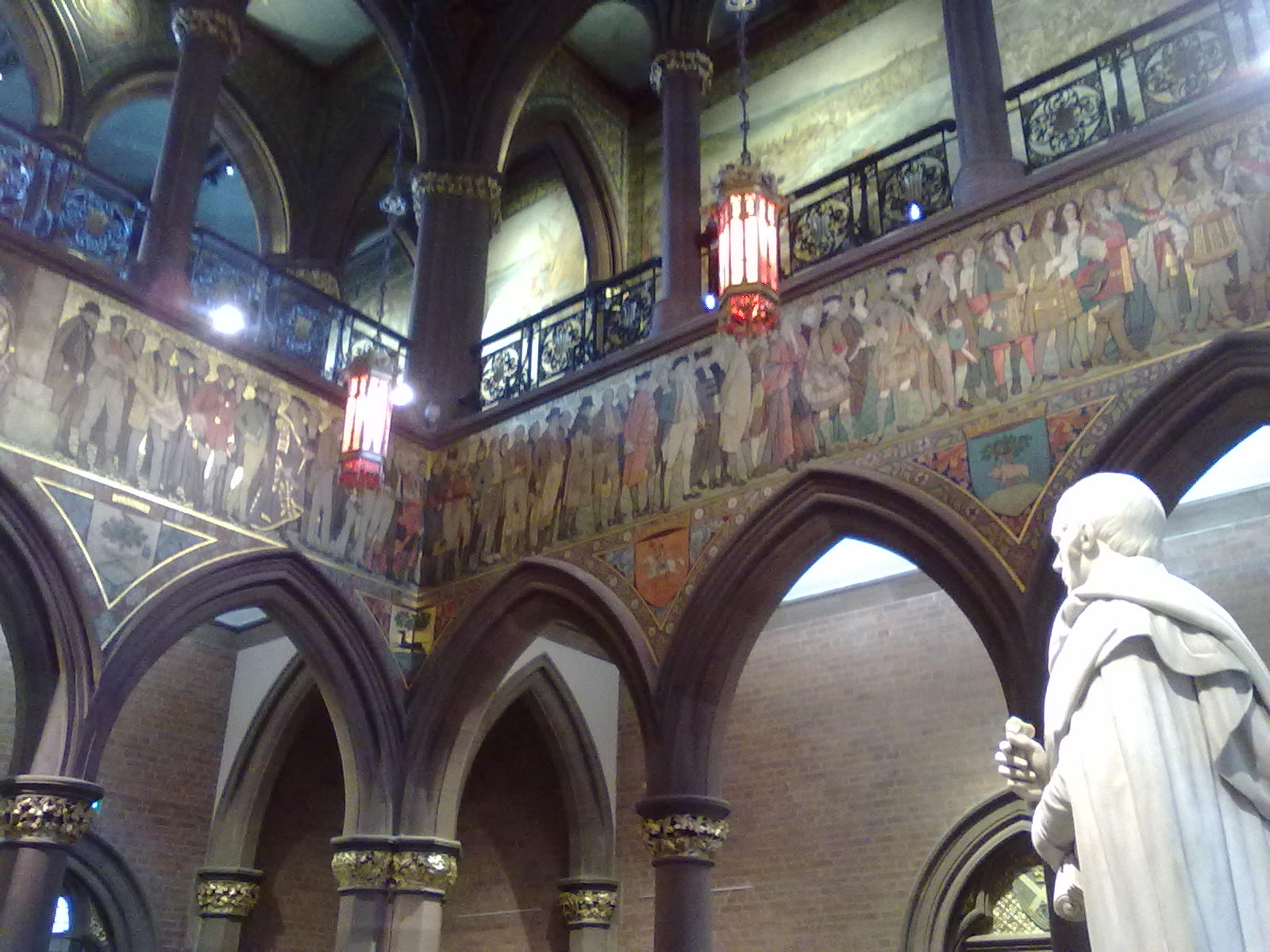 Scottish National Portrait Gallery Grand Hall mural